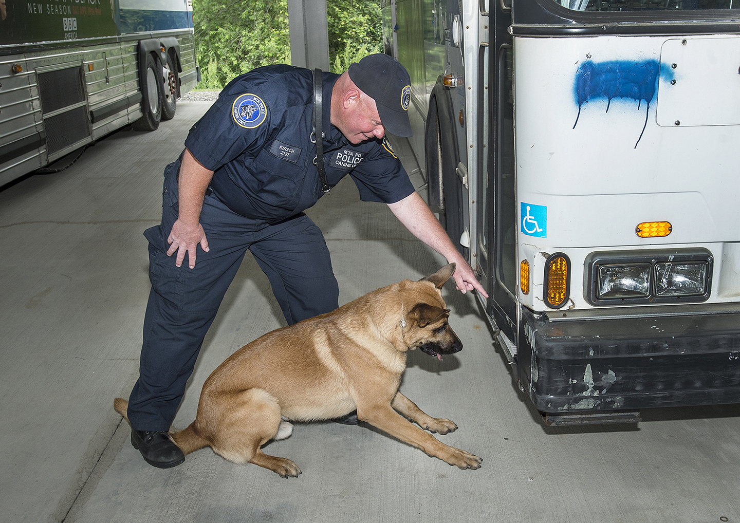 Police officers and officials attend ceremony at the MTAPD Canine Training Facility in Stormville, New York which officially opened on Wednesday, June 8, 2016. It is tne only mass transit oriented Police Canine Training facility in the United States. Photo: Patrick Cashin / Metropolitan Transportation Authority